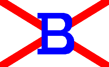 Booth Steamship Company logo